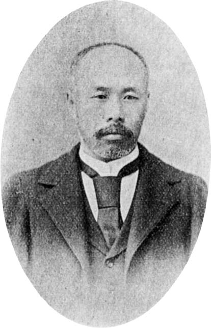 Mr. Keiichi Tanaka, director of the Tokyo Prefectural Normal School.